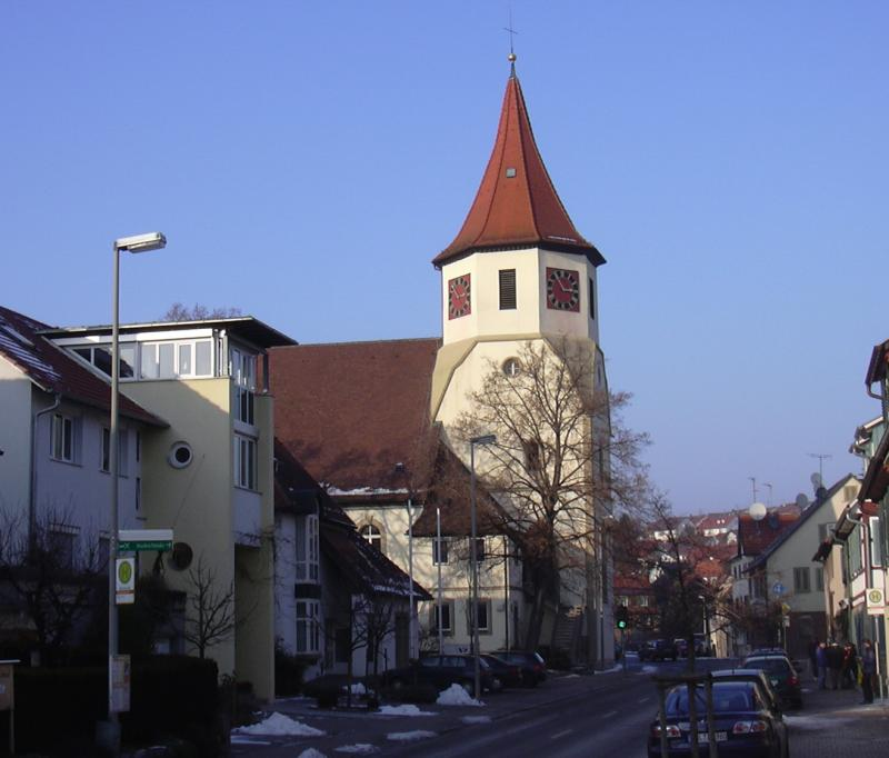 St. Martin's church in Großbottwar, Germany